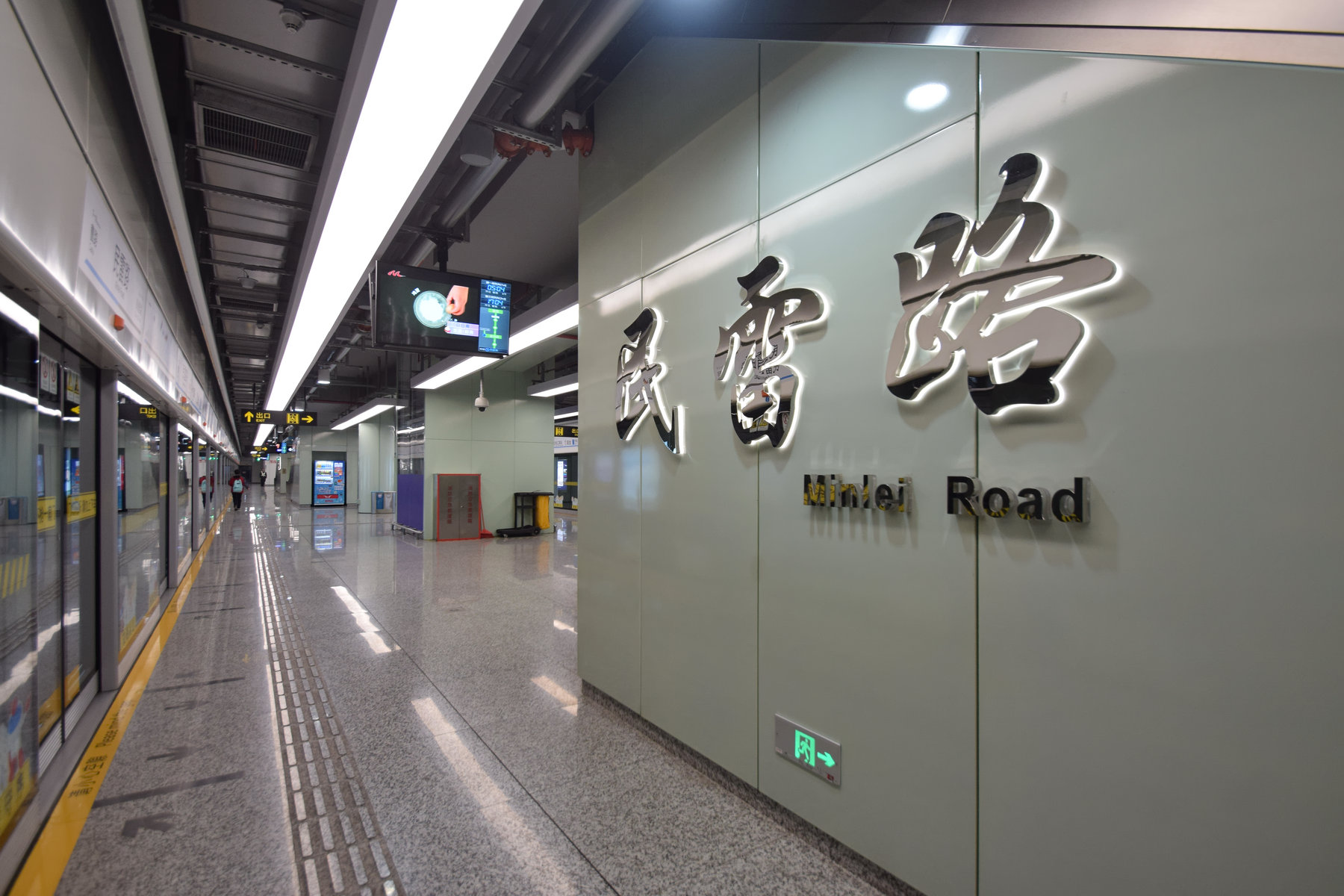 Line 9 Platform of Minlei Road Station, Shanghai Metro